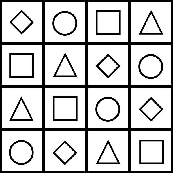 A 4x4 magic and latin square